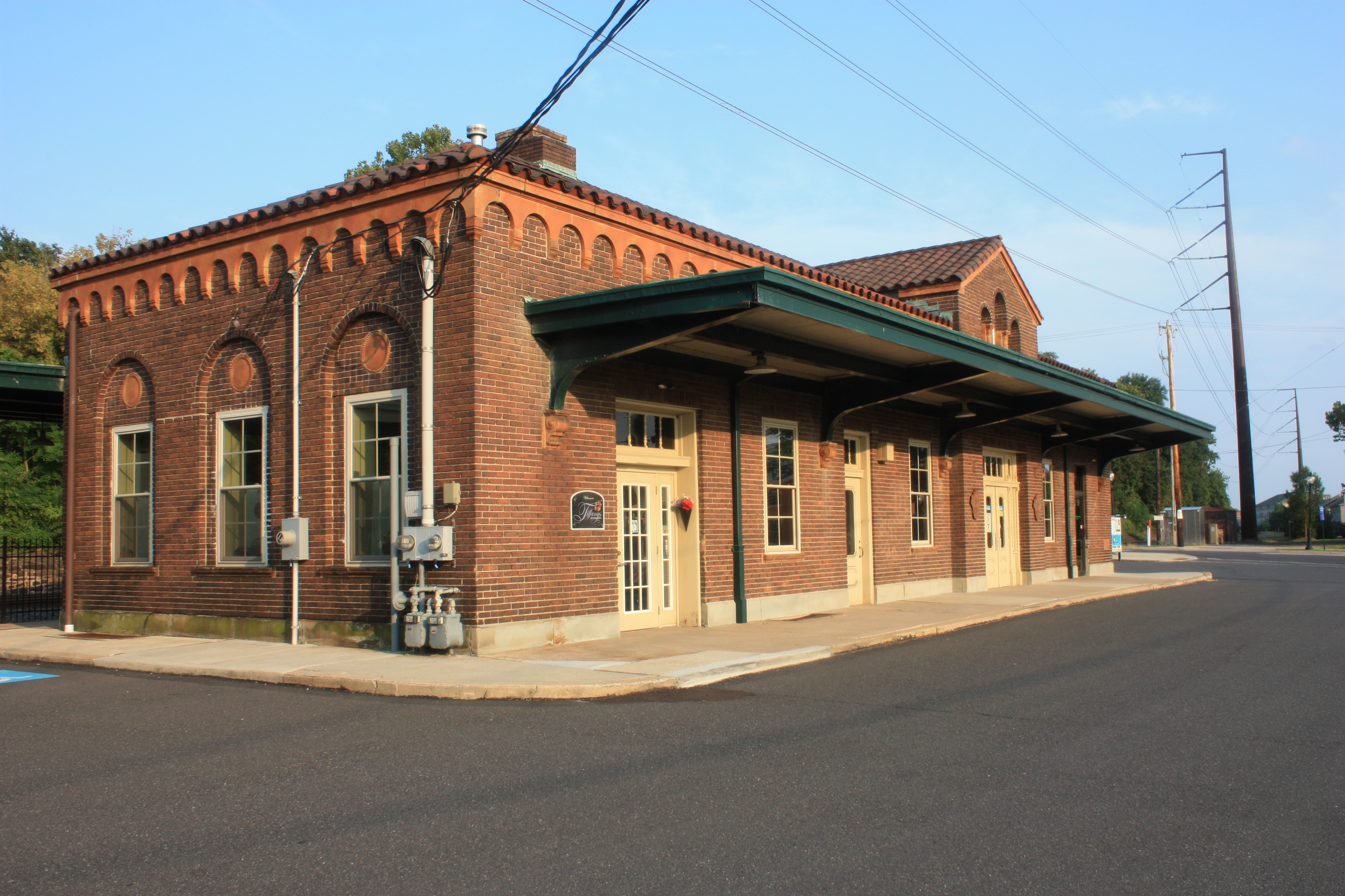 The former Royersford station in September 2013